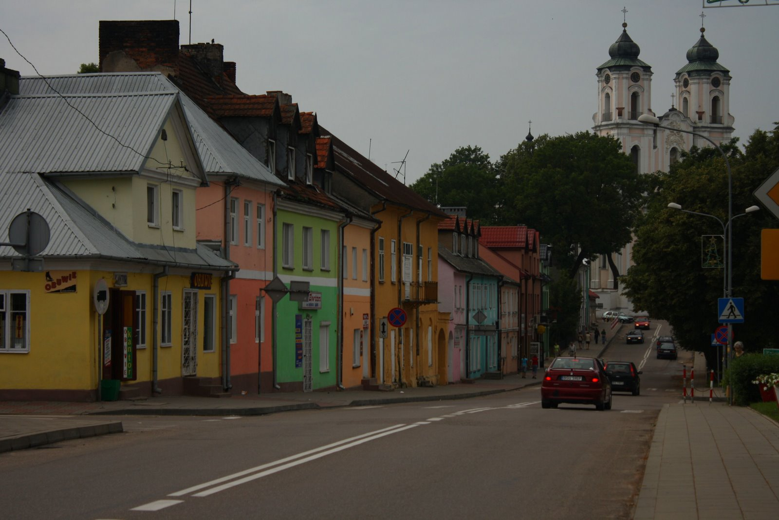 Sejny (Podlasie Voivodeship), Piłsudski Street and Church of St. Mary